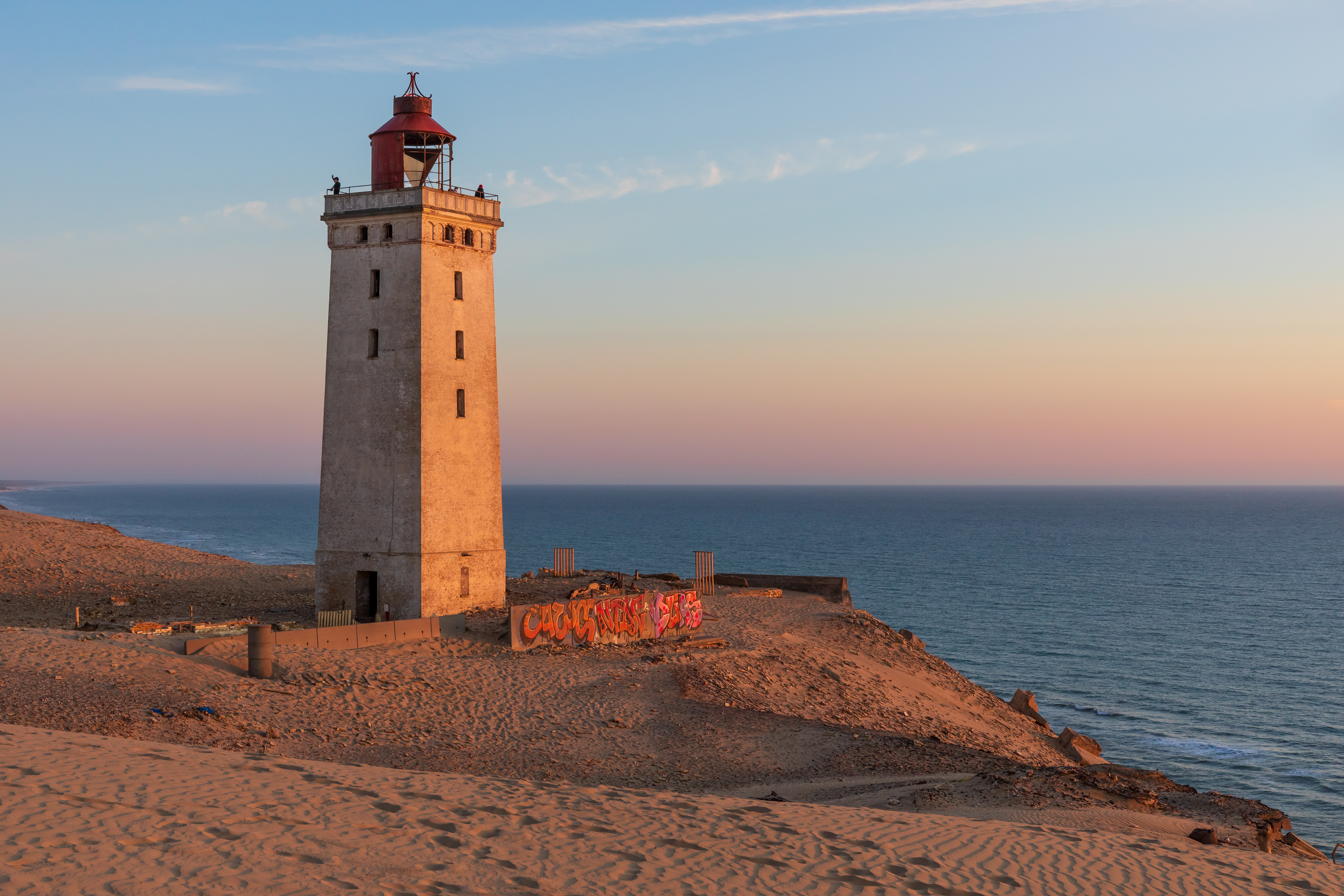 Rubjerg Knude Fyr is a lighthouse between Lønstrup and Løkken (municipality Hjørring) in Denmark which was bulit in 1900. From the 1910s, the wind blew large amounts of sand from the cliffs and the actual dune formed between the lighthouse and the sea. The dune moved towards northeast and now has completely passed the lighthouse. Of the outbuildings only loose bricks remained. The lighthouse itself is expected to collapse soon. The Danish nature authority is planning to dismantle the building before it is going to fall into the north sea.